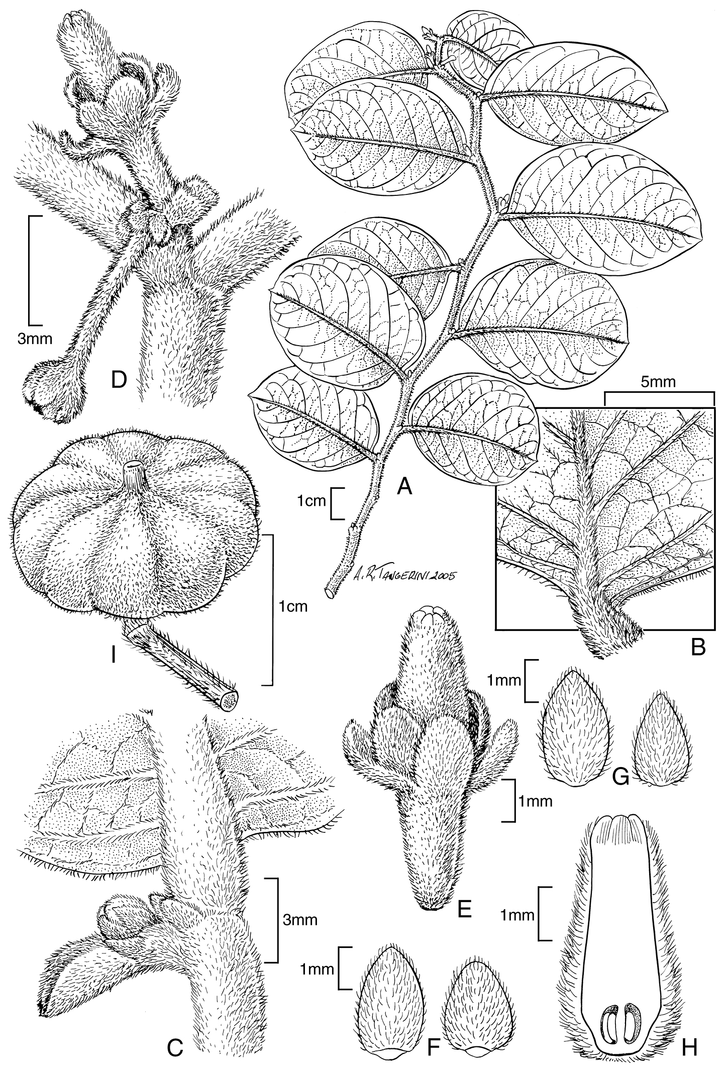 Phyllanthus hivaoaense. Branch (A), abaxial leaf surface (B), leaf axil showing stipules (C), female flowers (D), female flower close-up (E), calyx lobes (F-G), longitudinal view of female flower (H), capsule (I).